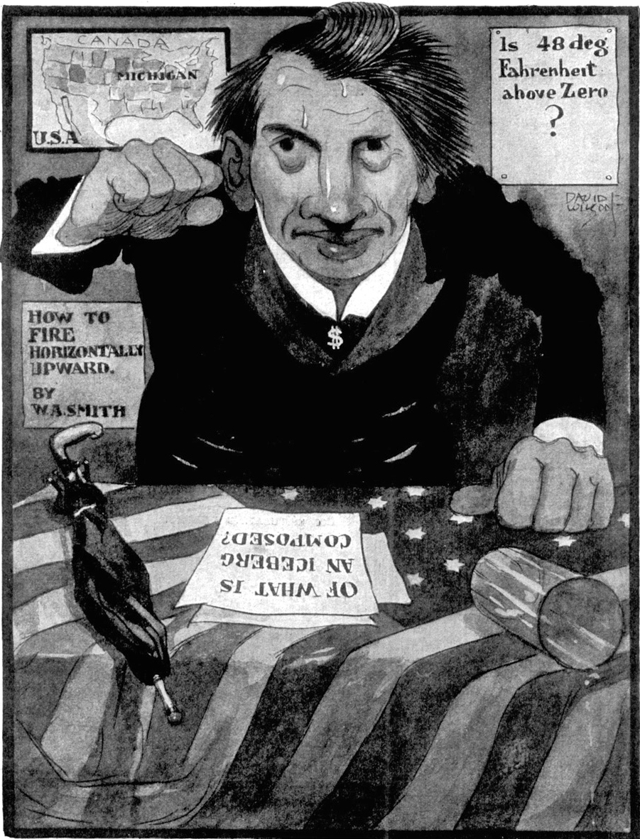 "The Importance of Being Ernest", satirical depiction of Senator William Alden Smith